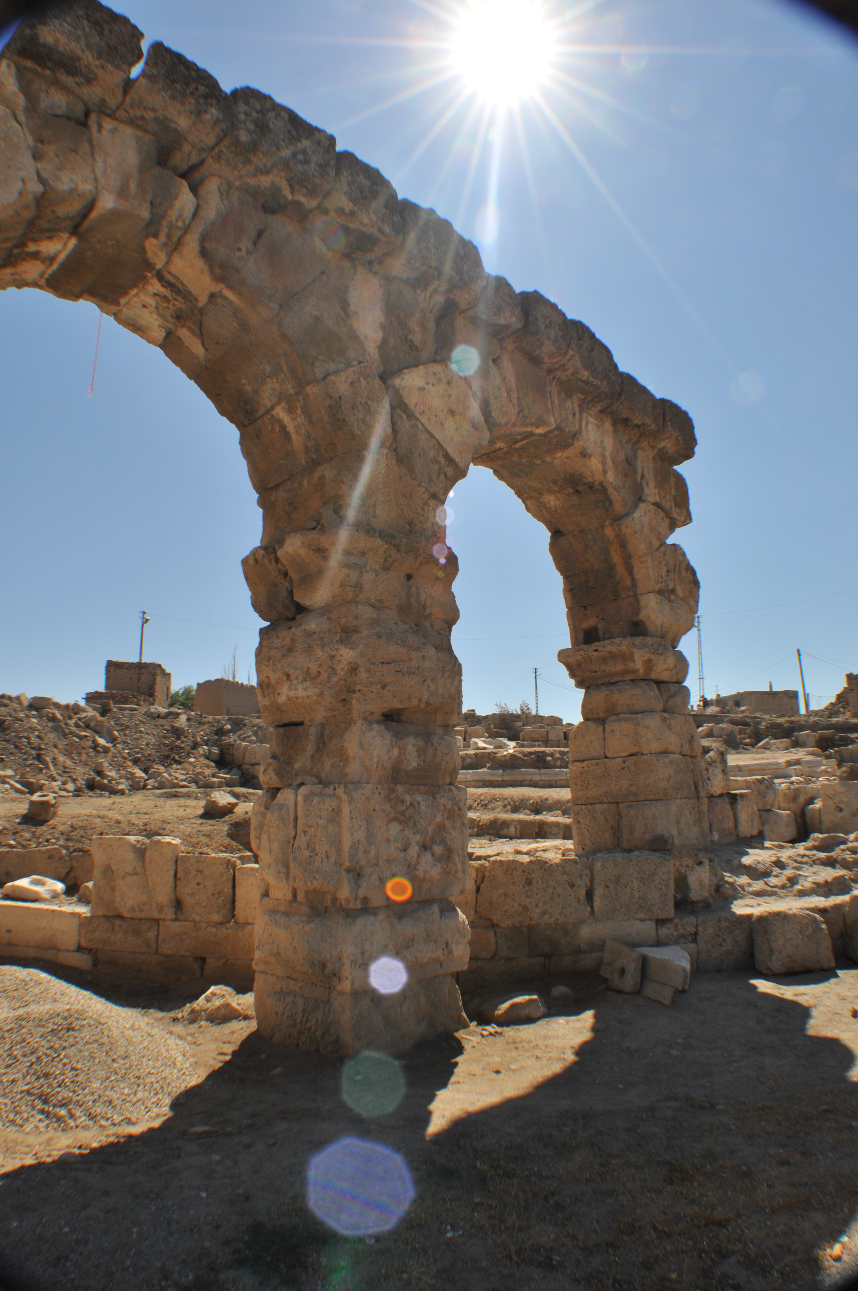 Kemerhisar, Turkey, Historical Roman aqueduct and excavation site